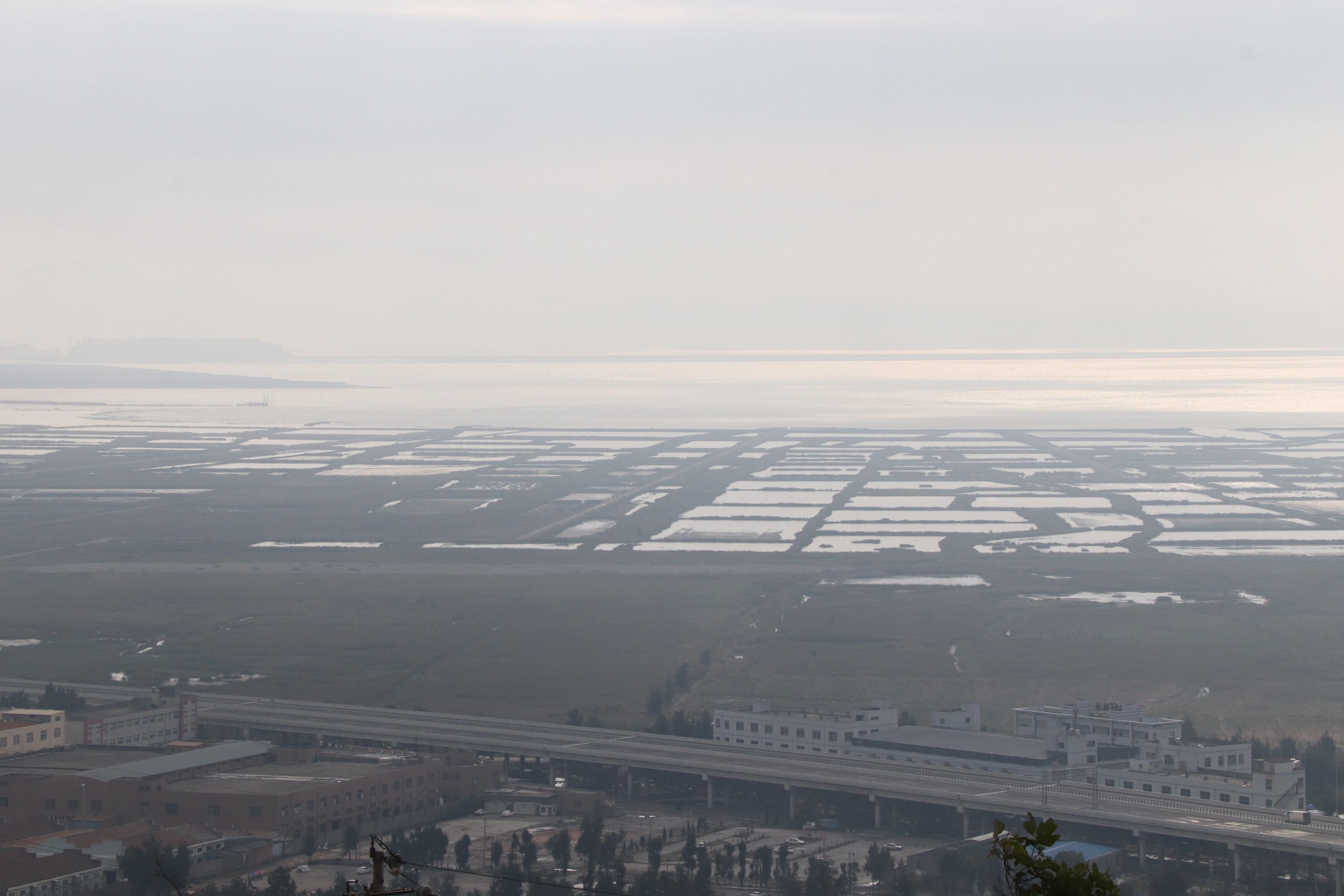 Standing on a hill overlooking Lupu Town, Yuhuan City.